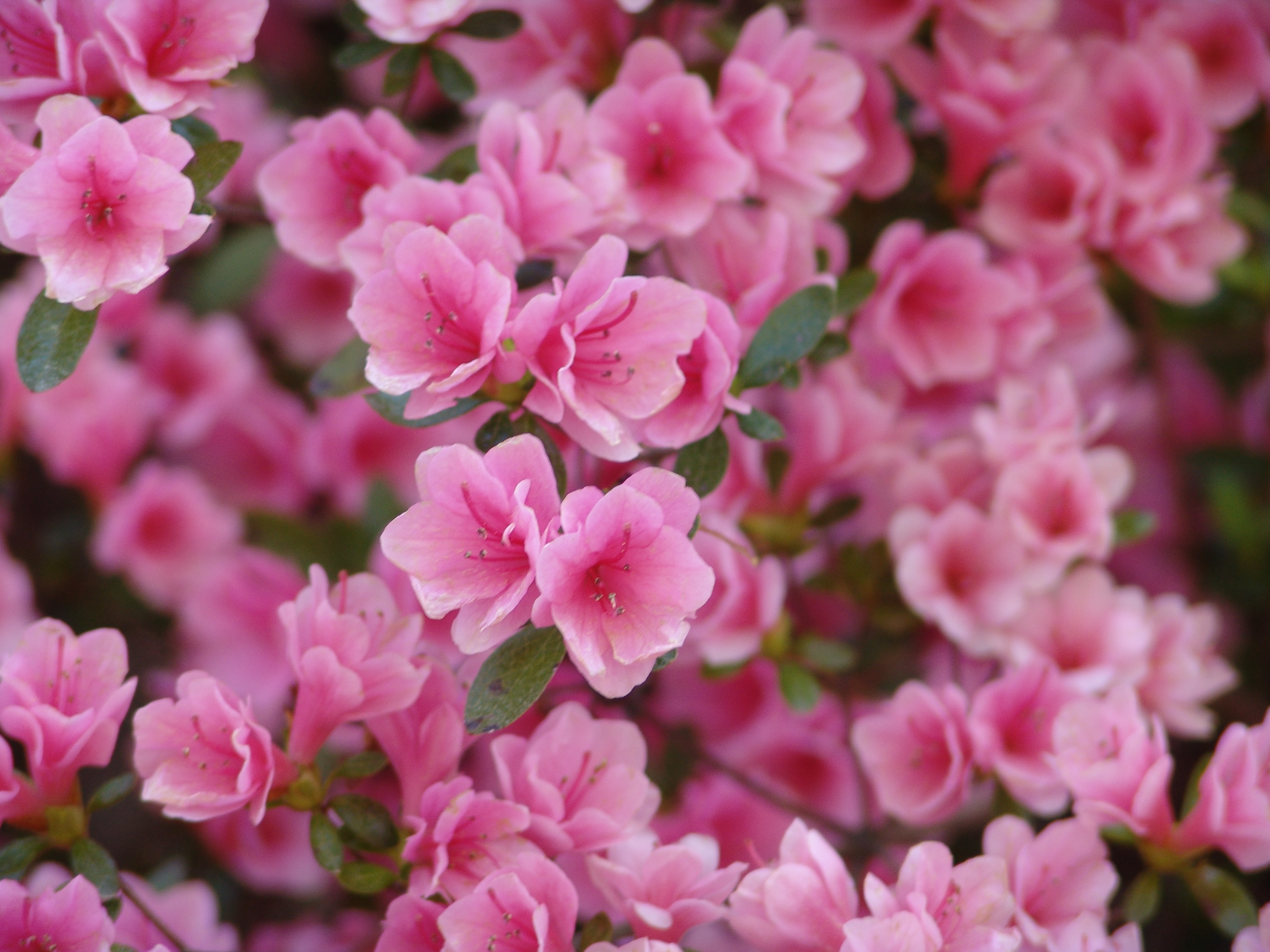 Rhododendron 'Kirin' (syn. 'Coral Bells', Wilson's Fifty Nr. 22); Norfolk Botanical Garden